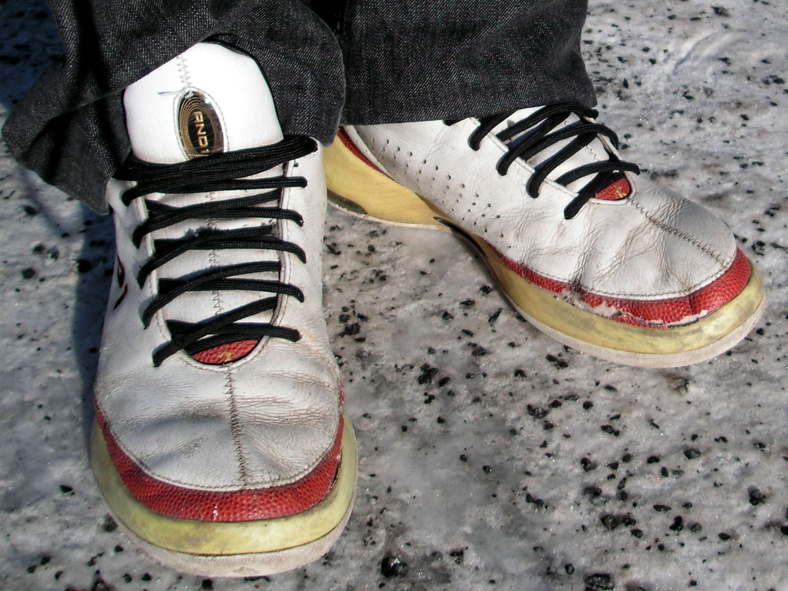 Basketball shoe AND1 Smooth Mid.